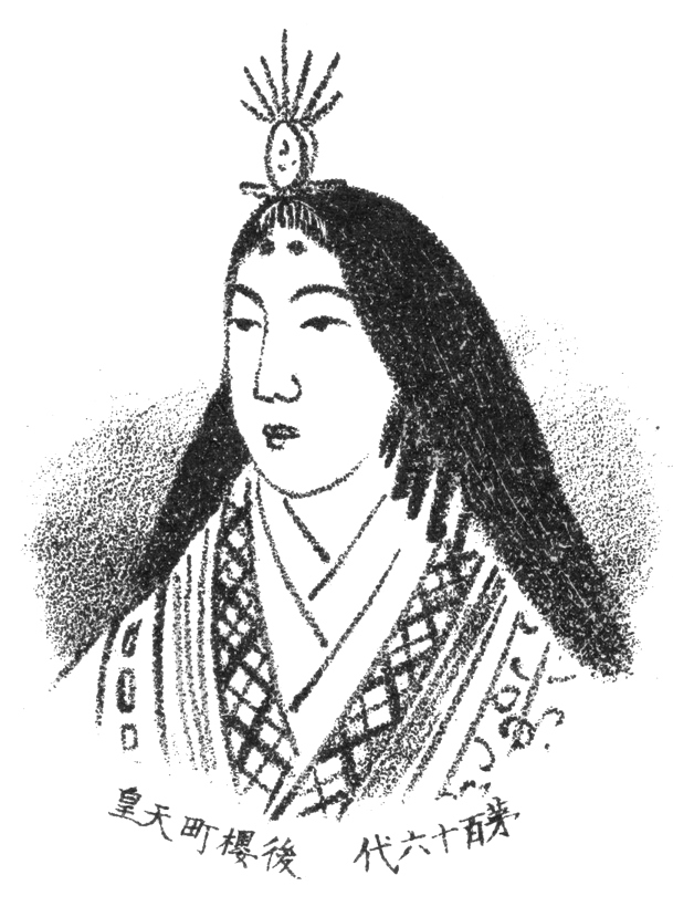 Empress Go-Sakuramachi, who was the 117th monarch of Japan